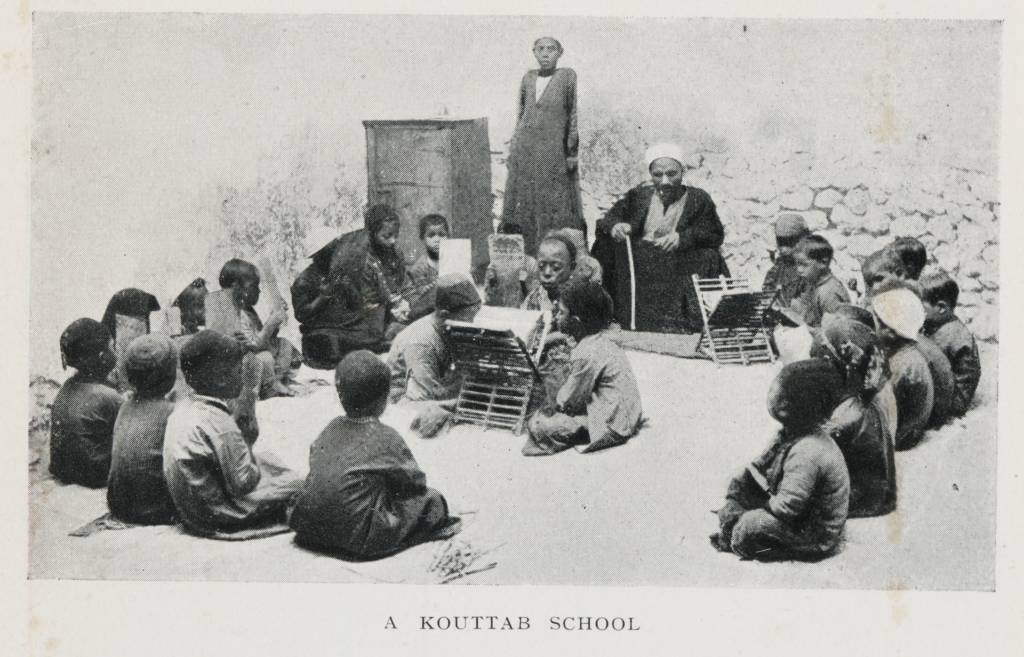 A group of children sit in a circle along with an older man. Several children are holding up pieces of paper, and a few are sitting inside the circle at a low bookstand.